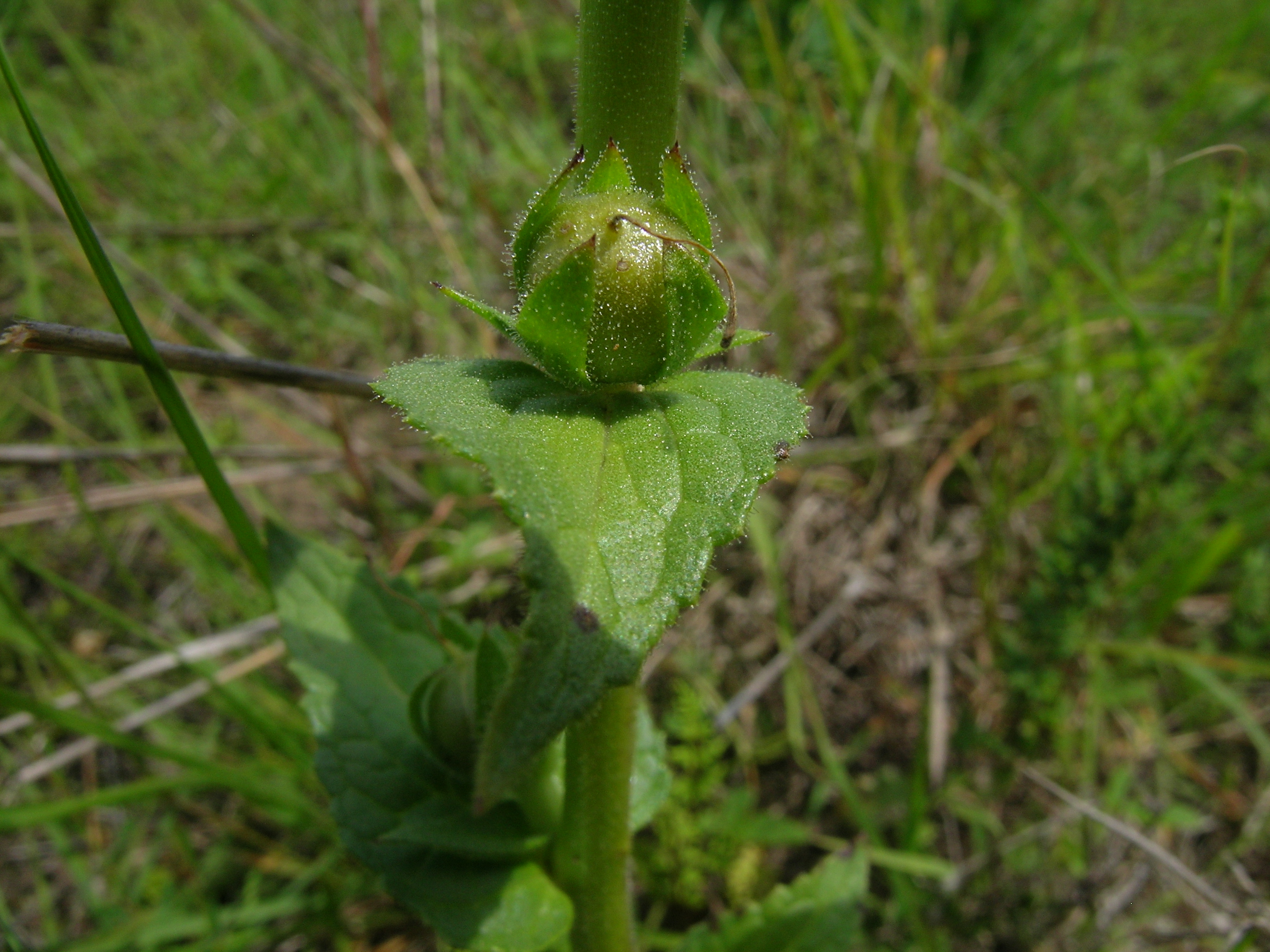 Introduced, warm season, biennial, hairy herb 1–2 m tall. Leaves form a rosette when young; lower leaves are obovate to elliptic, lamina 8–30 cm long and 3–10 cm wide, with margins toothed and sometimes sinuate; upper leaves are sessile and stem-clasping. Flowerheads are racemes 30–80 cm long. Flowers occur on short pedicels 2–5 mm long, and are 3–4 cm diam., yellow with a purple centre. Capsules are globose, 5–8 mm long and glandular-hairy. Flowering is from spring to autumn. A native of western Europe, it grows in disturbed areas, often along roadsides and near habitation.